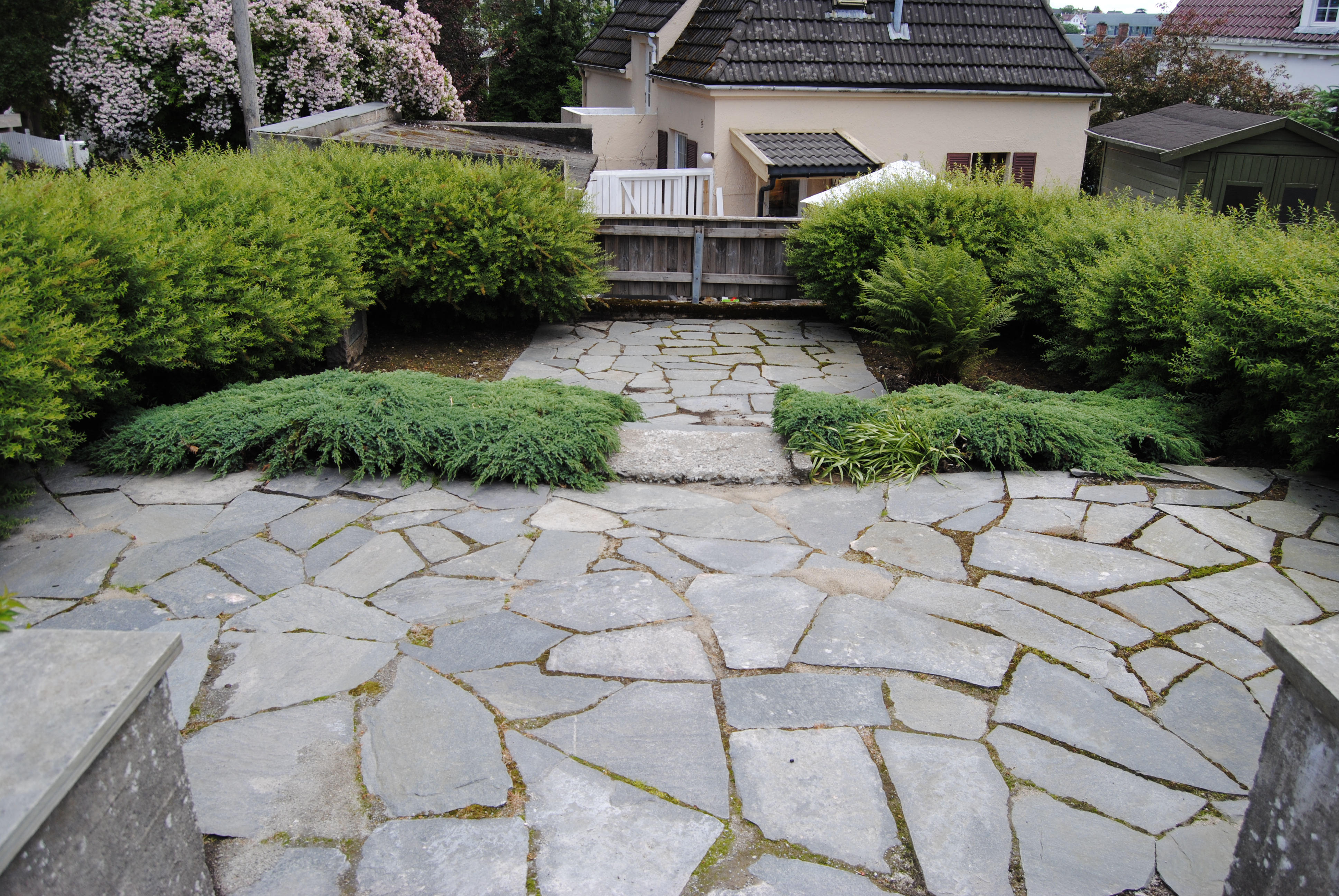 The old quaker cemetary in Stavanger, Norway